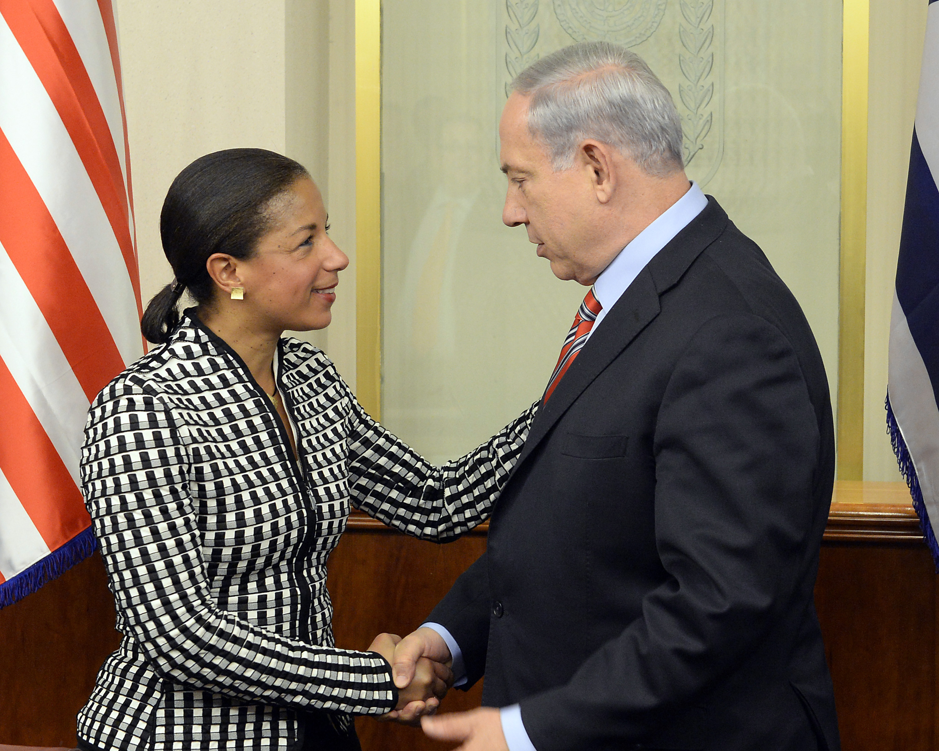 Ambassador Susan Rice, the President’s National Security Advisor, meets with Israeli Prime Minister Benjamin Netanyahu at the Prime Minister's Office in Jerusalem on May 7, 2014. [State Department photo/ Public Domain]